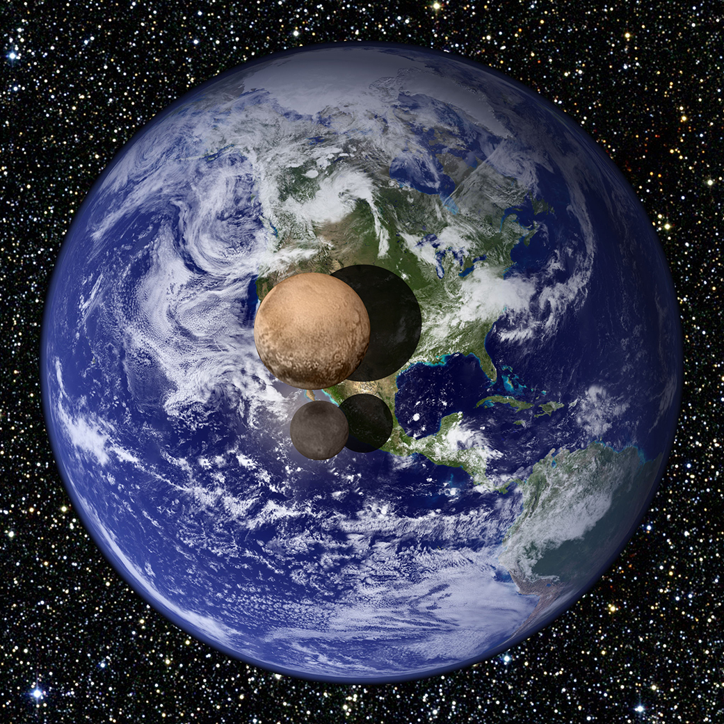 July 13, 2015 Recent Measurements of Pluto and Charon Obtained by New Horizons IMAGE CAPTION: Earth comparison with Pluto and Charon This graphic presents a view of Pluto and Charon as they would appear if placed slightly above Earth's surface and viewed from a great distance. Recent measurements obtained by New Horizons indicate that Pluto has a diameter of 2370 km, 18.5% that of Earth's, while Charon has a diameter of 1208 km, 9.5% that of Earth's.